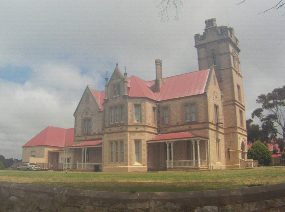 Mount Breckan Mansion, Renown Avenue, Victor Harbor, South Australia. Viewed from the east. Built for Alexander Hay (South Australian politician) - completed 1881.